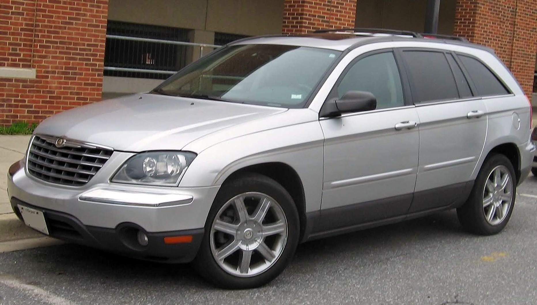 2004-2006 Chrysler Pacifica photographed in College Park, Maryland, USA.